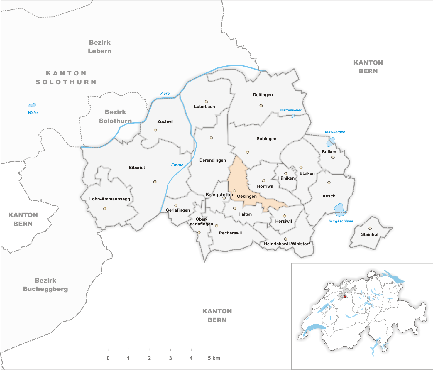 Municipality Oekingen